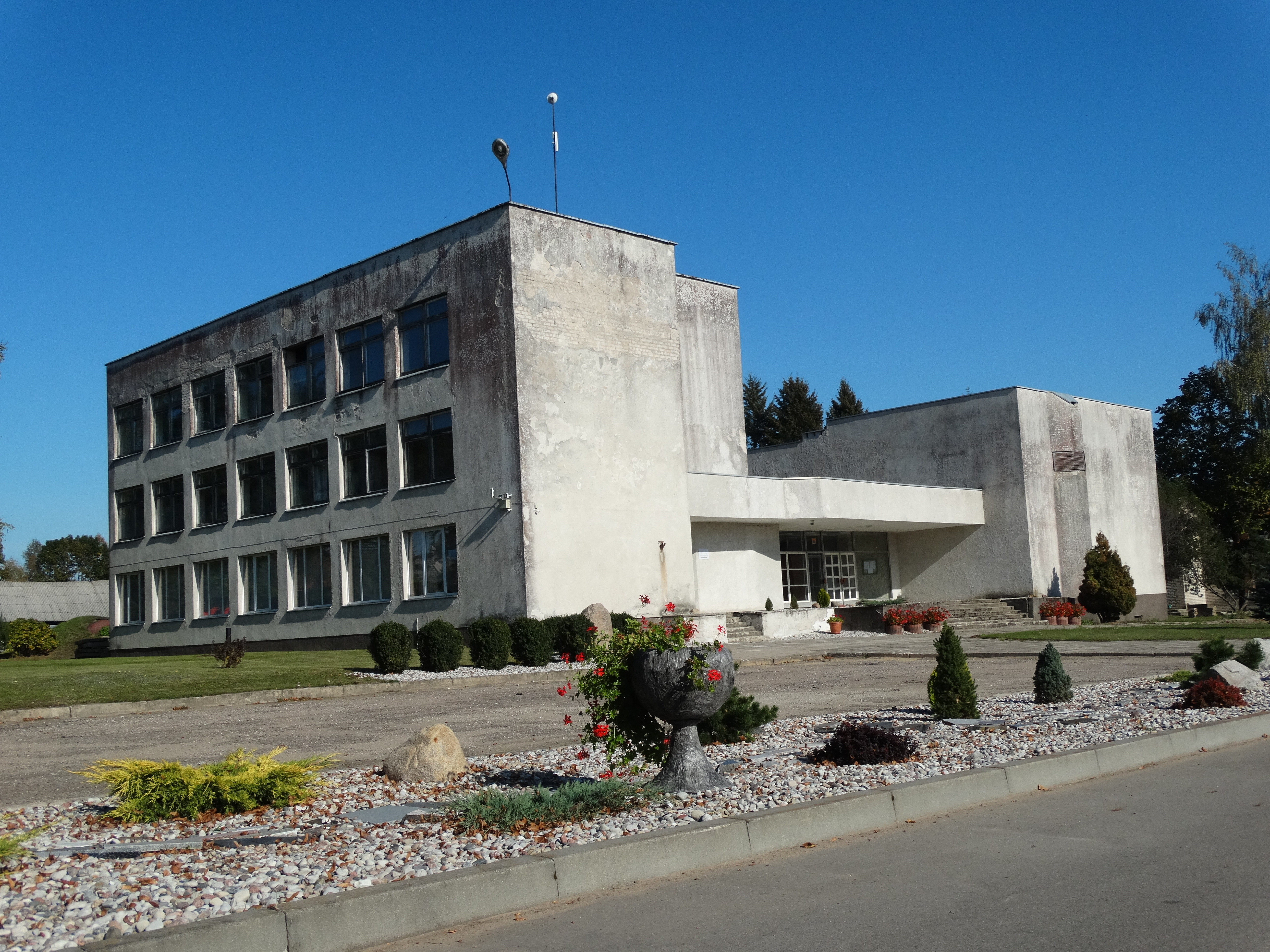 Sujainiai, centre of culture, Raseiniai district, Lithuania